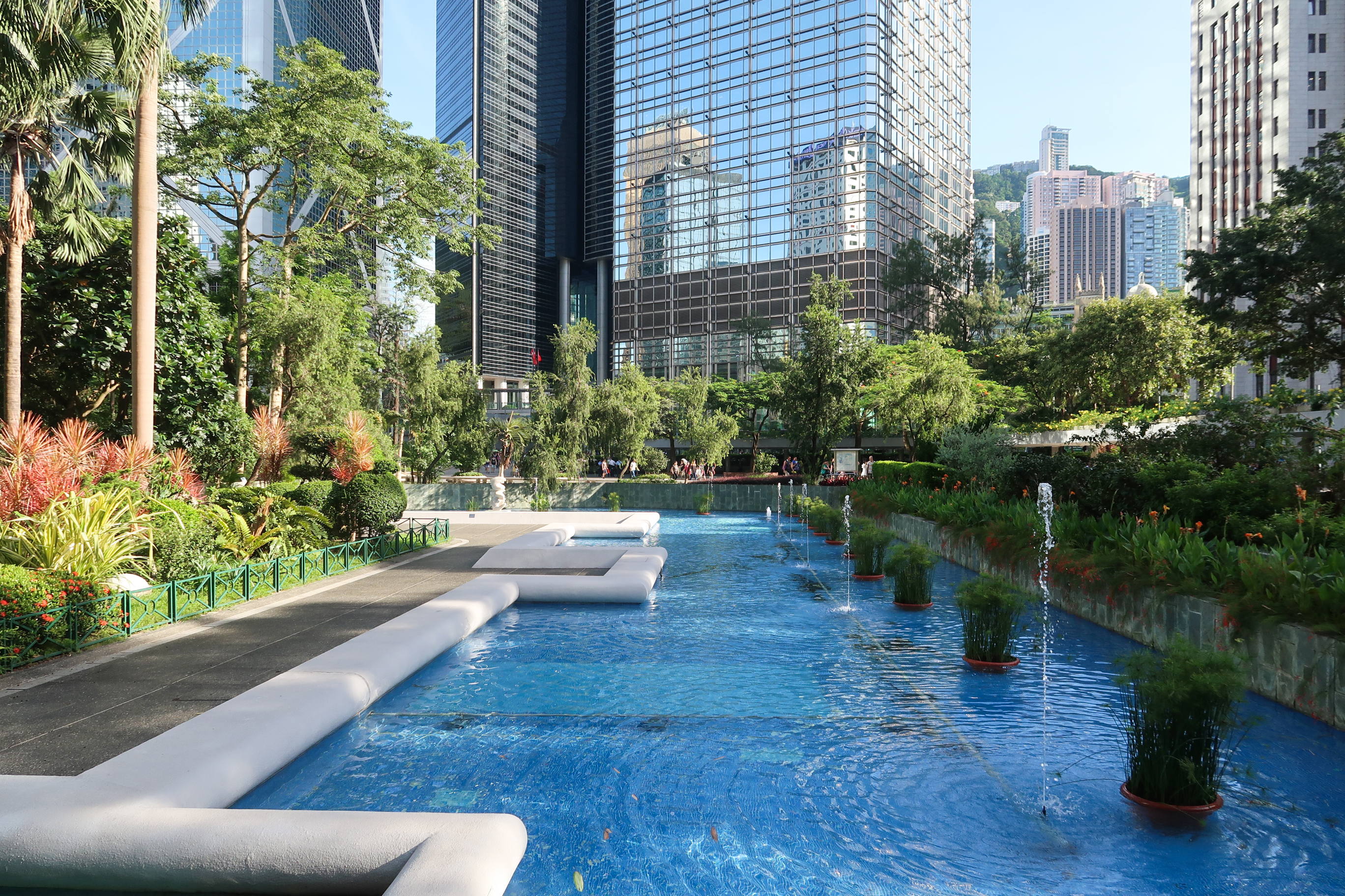 Chater Garden Fountain